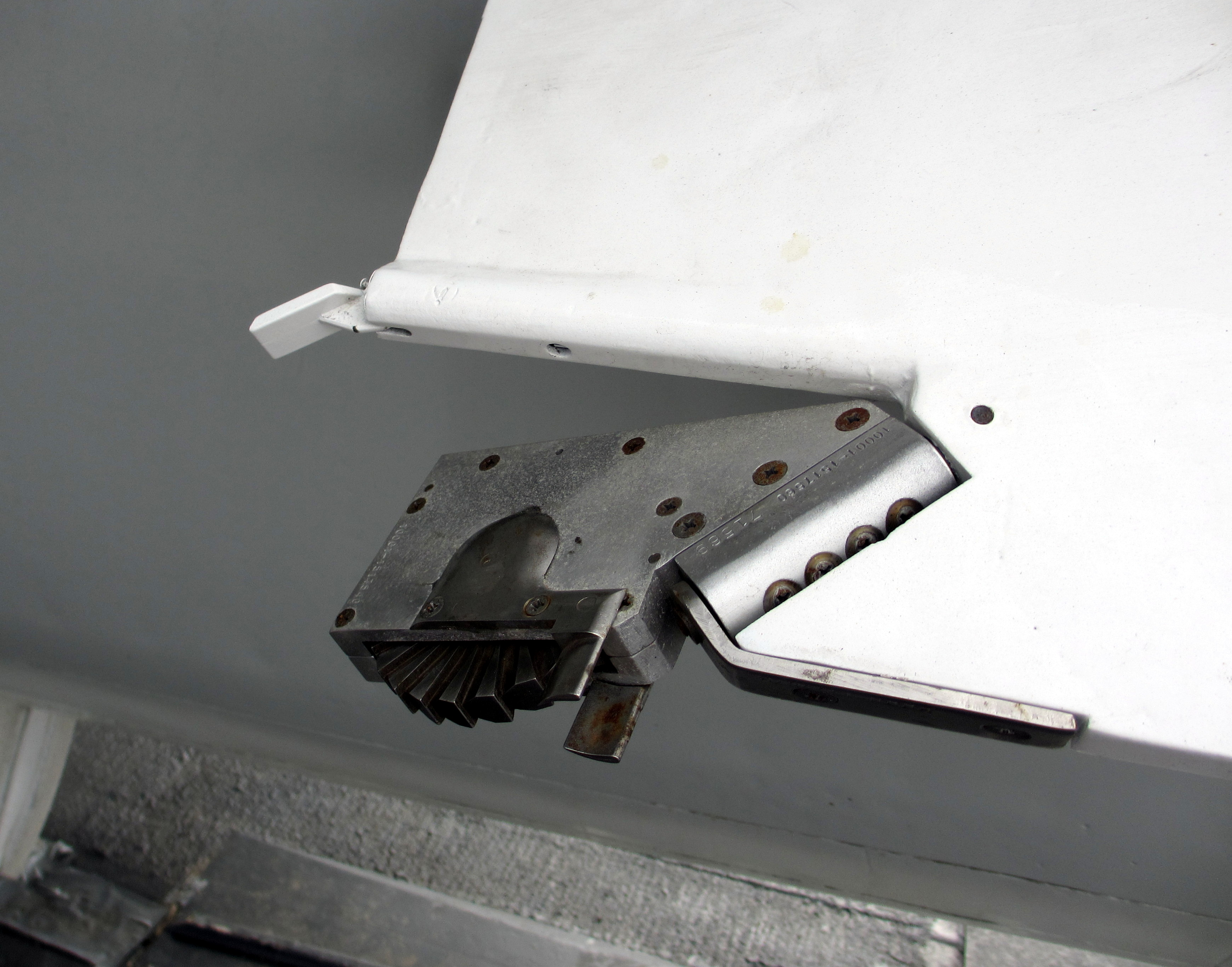 Gyro-controlled tailfin of the Sidewinder, also known as a "rolleron". The device is essentially a rudder that is used to keep the missile from rolling. This was needed because the early Sidewinders used a spinning seeker that calculated the angle to the target through timing based on the known rotational rate of the seeker. If the airframe was also rolling, the timing was thrown off and the missile would not guide properly. A similar design, the Falcon, included a gryoscopic system linked to the controls to address this, but this added considerable complexity, Sidewinder's passive system was far simpler and achieved the same end. Each of the fins at the rear of the missile is equipped with a rolleron. This consists of a metal flap with a metal disk embedded in it with just the top of the disk exposed. The disk is edged with small teeth designed to catch the wind. The two small metal fingers guide the airflow onto the teeth, which spins the disk to a high speed and causes it to build up considerable gyroscopic force. If the missile begins the spin, the disks produce a force on the flap, causing it to rotate around the hinge line at the front. This pushes the flap into the airflow, producing a countering aerodynamic force that stops the spinning.